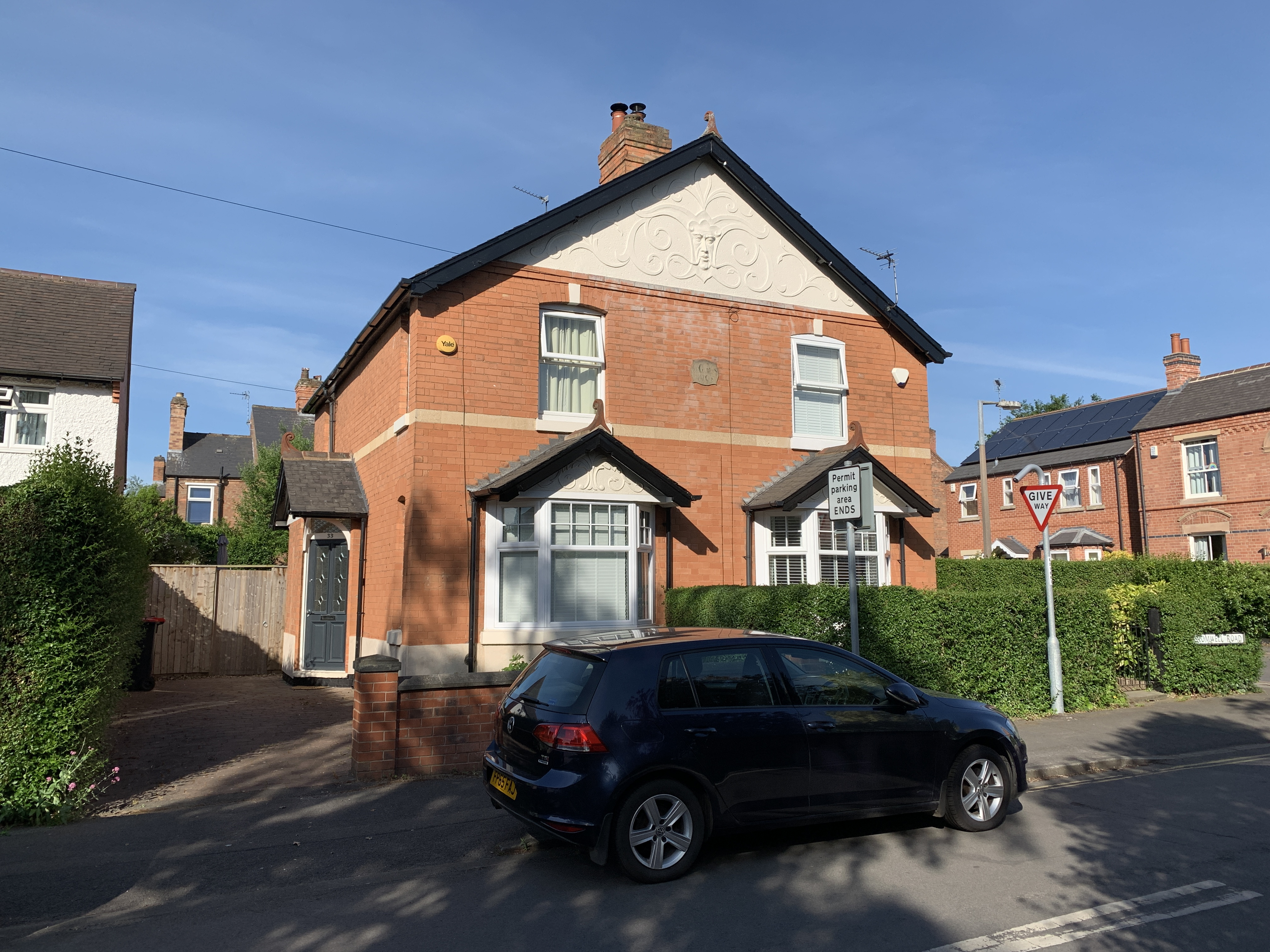 Ye Gables 1905. Architect: Thomas Woolston